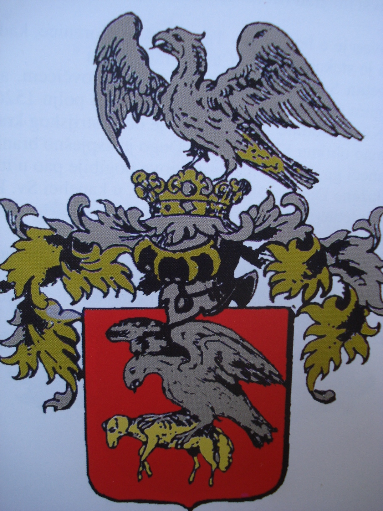 Coat of arms of the Kružić (Kruzhich) noble family, CroatiaHrvatski: Grb plemićke obitelji Kružić, Hrvatska